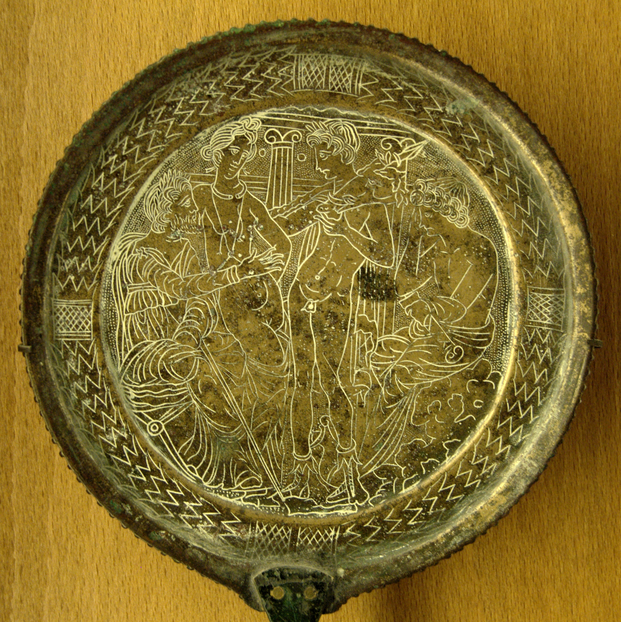 Oeneus, Atalanta, Meleager and a son of Thestius (?). Engraved Etruscan mirror, bronze, 4th–3rd century BC.